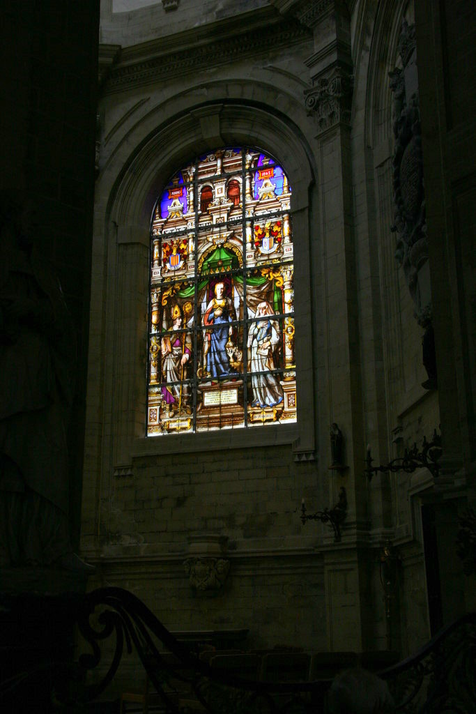 Glass window in the Maes-chapel of the St. Michael and Gudula cathedral in Brussels, depicting St Gudula holding a lantern (her attribute).